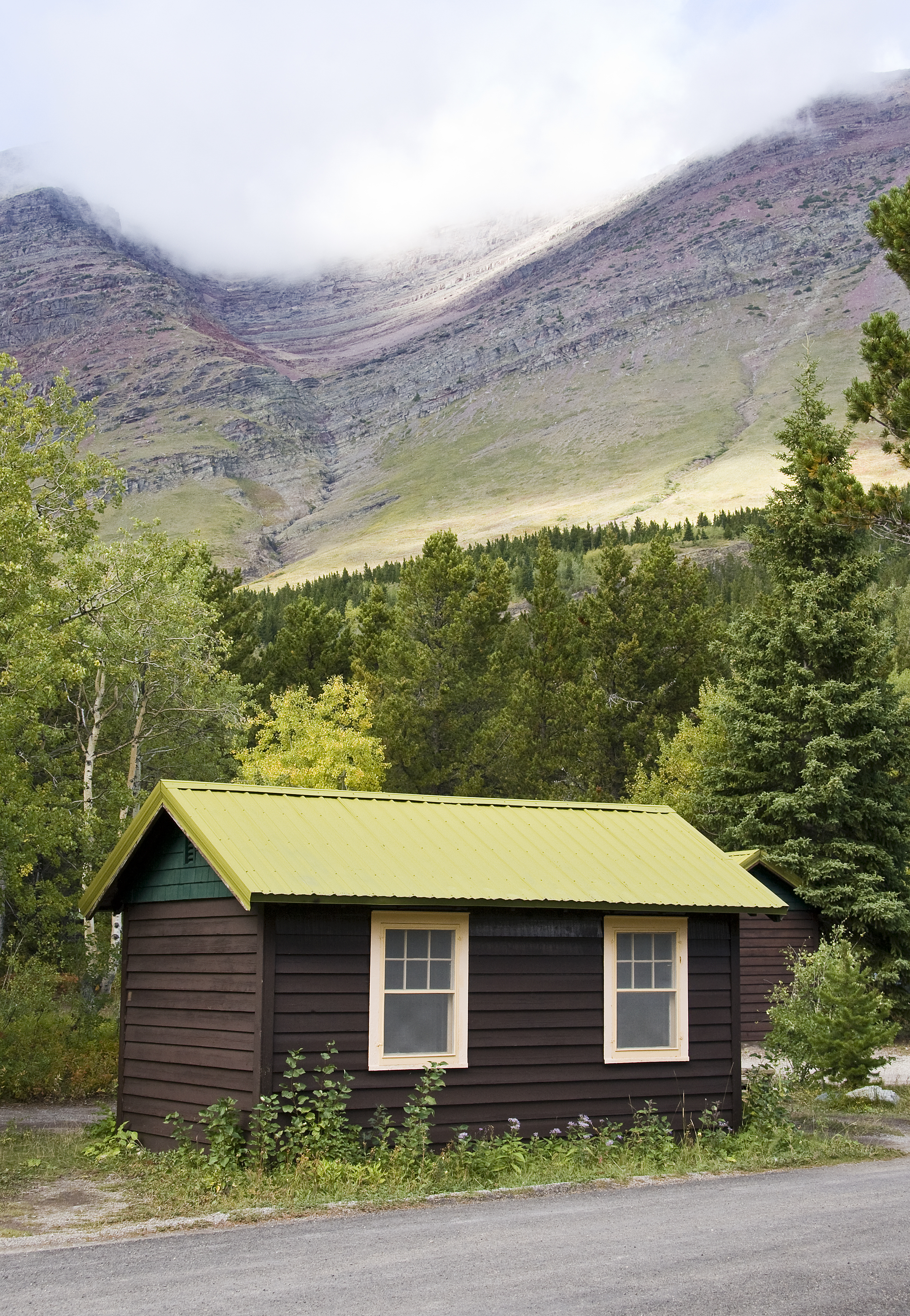 Cabin at the Swiftcurrent Auto Camp, Glacier National Park, M ontana, USA. Listed on the National Register of Historic Places.